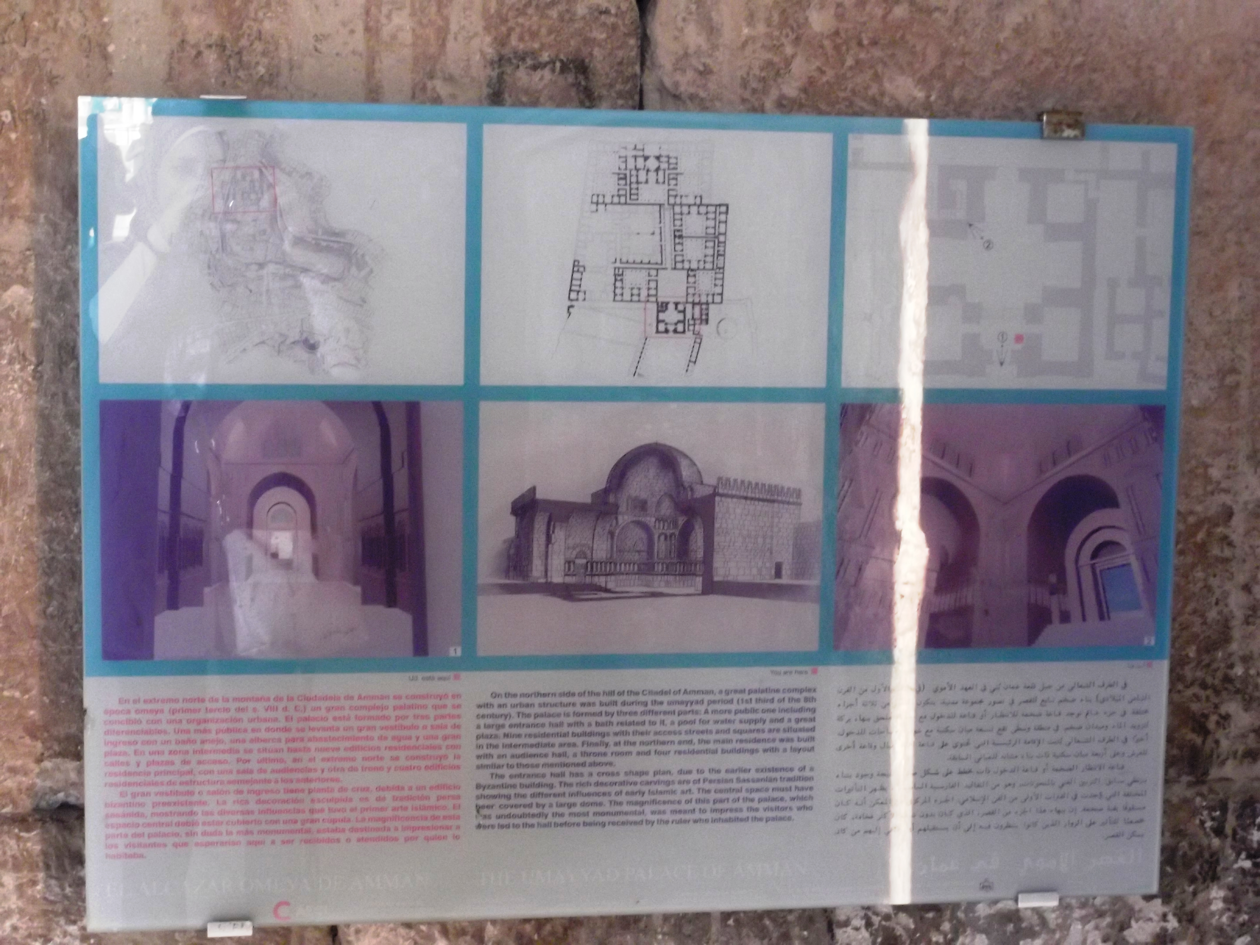 Plan of Umayyad Palace